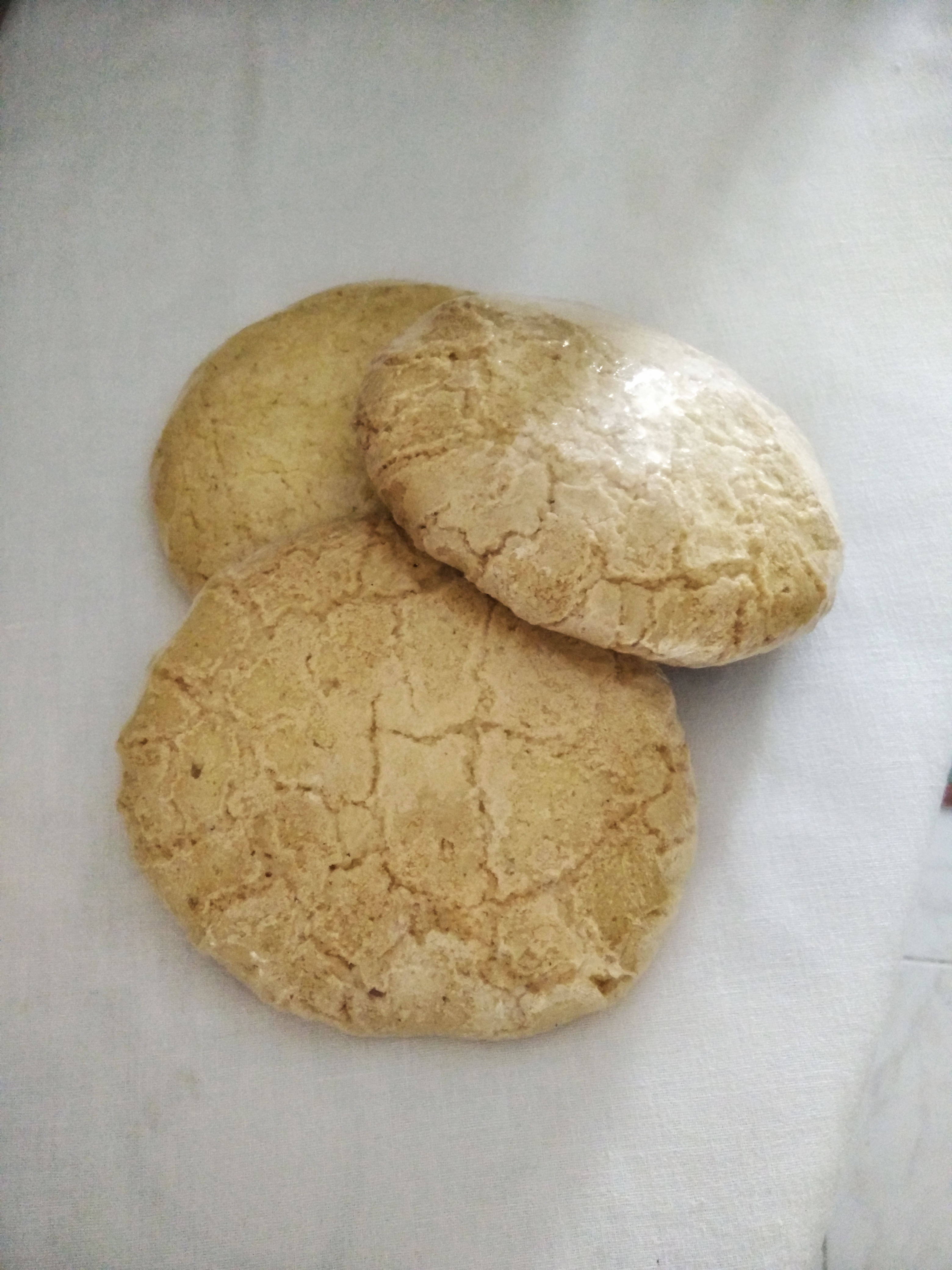 Albanian traditional sweet. city origin Elbasan.